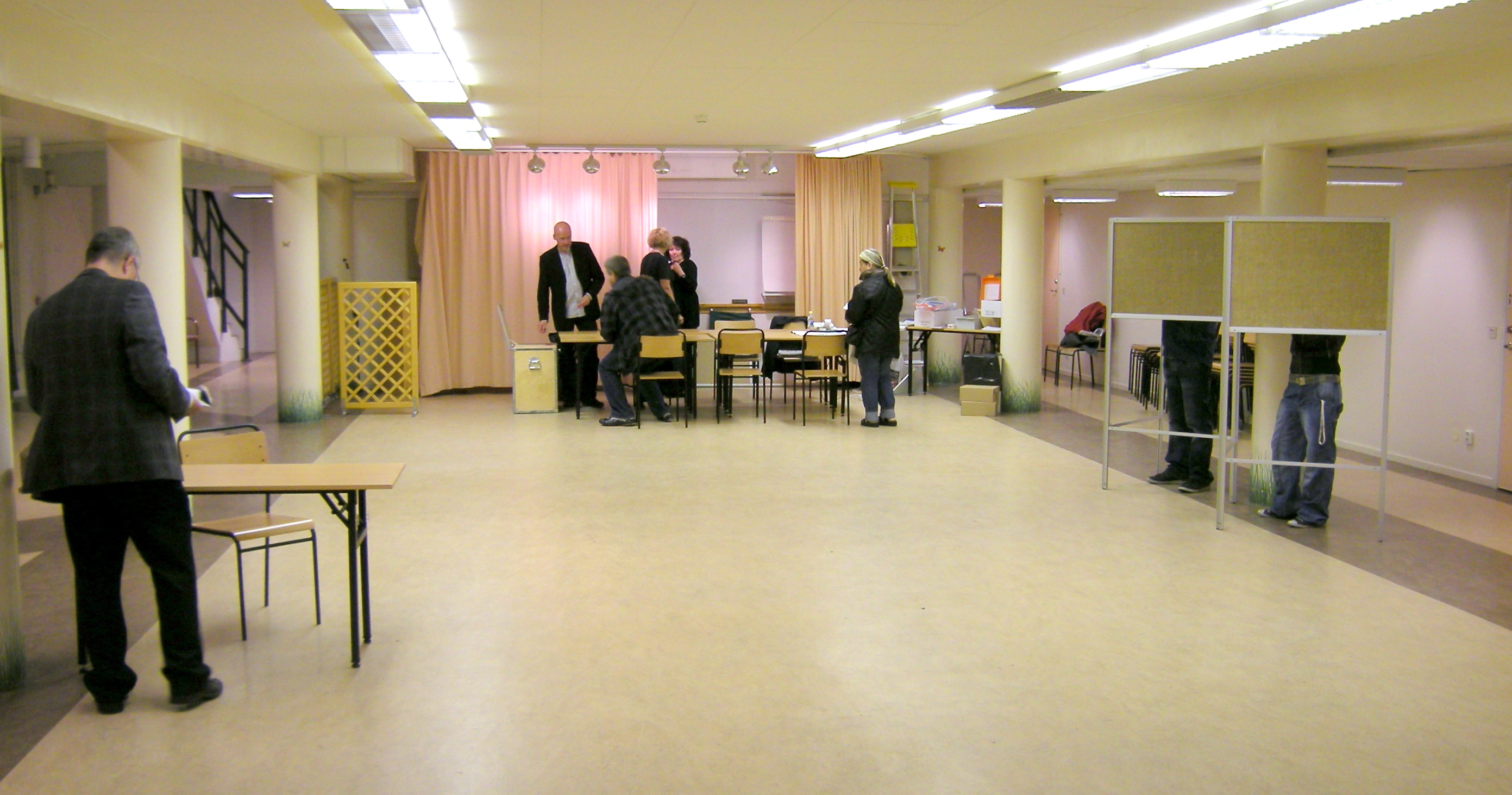 Swedish election 2010, poll station.